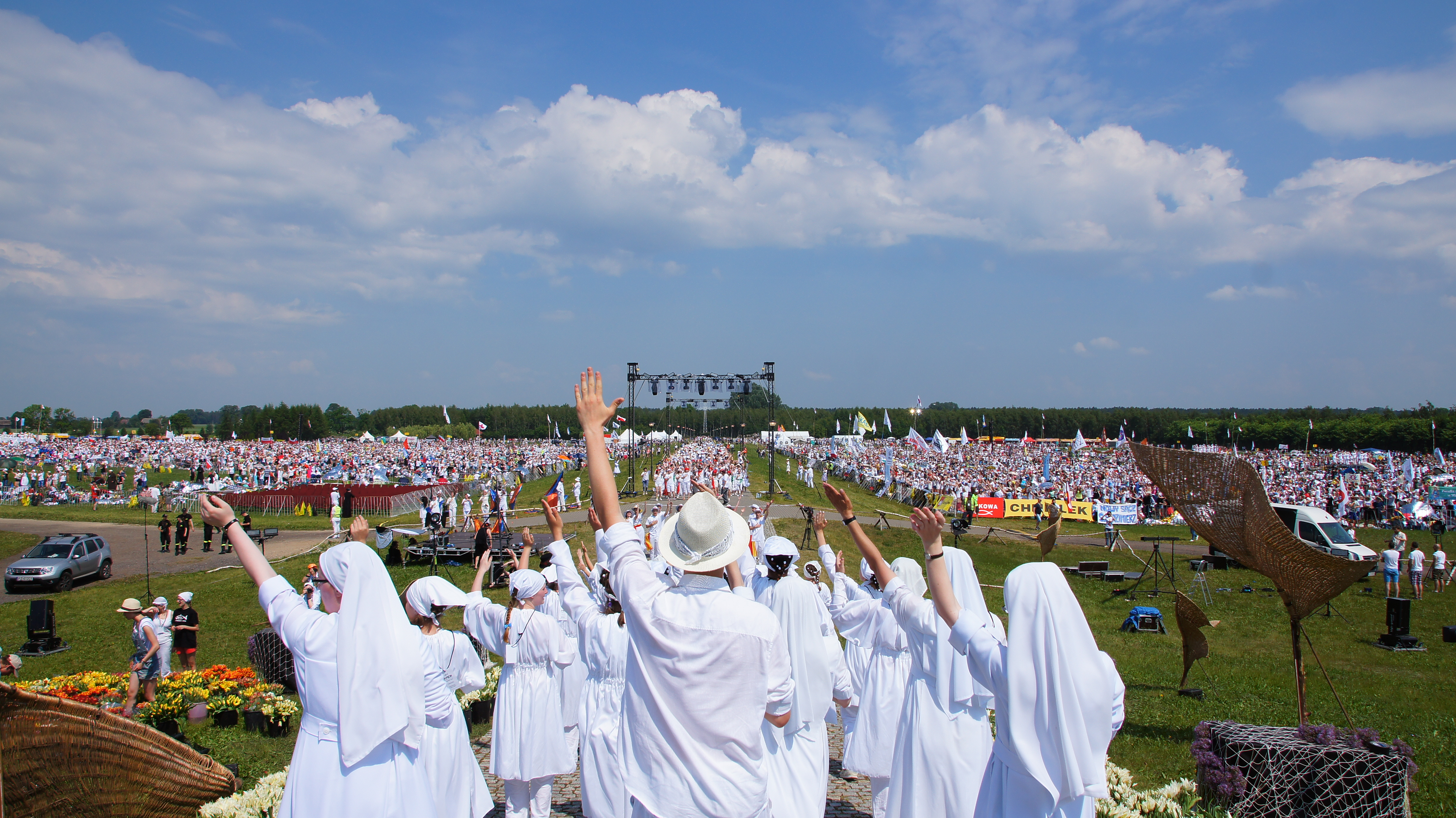 people dance during youth meeting LEDNICA 2000